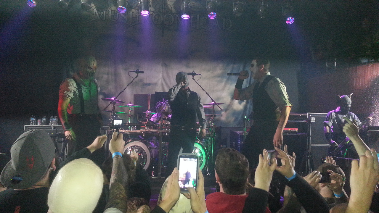 Waylon, Jeffery "Nothing" Hatrix, and Jason "JMann" Popson